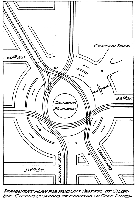 Columbus Circle rotary plan, William Phelps Eno, Street Traffic Regulation, page 28, published 1909. This drawing is in the public domain because it was first published in the United States before 1923.